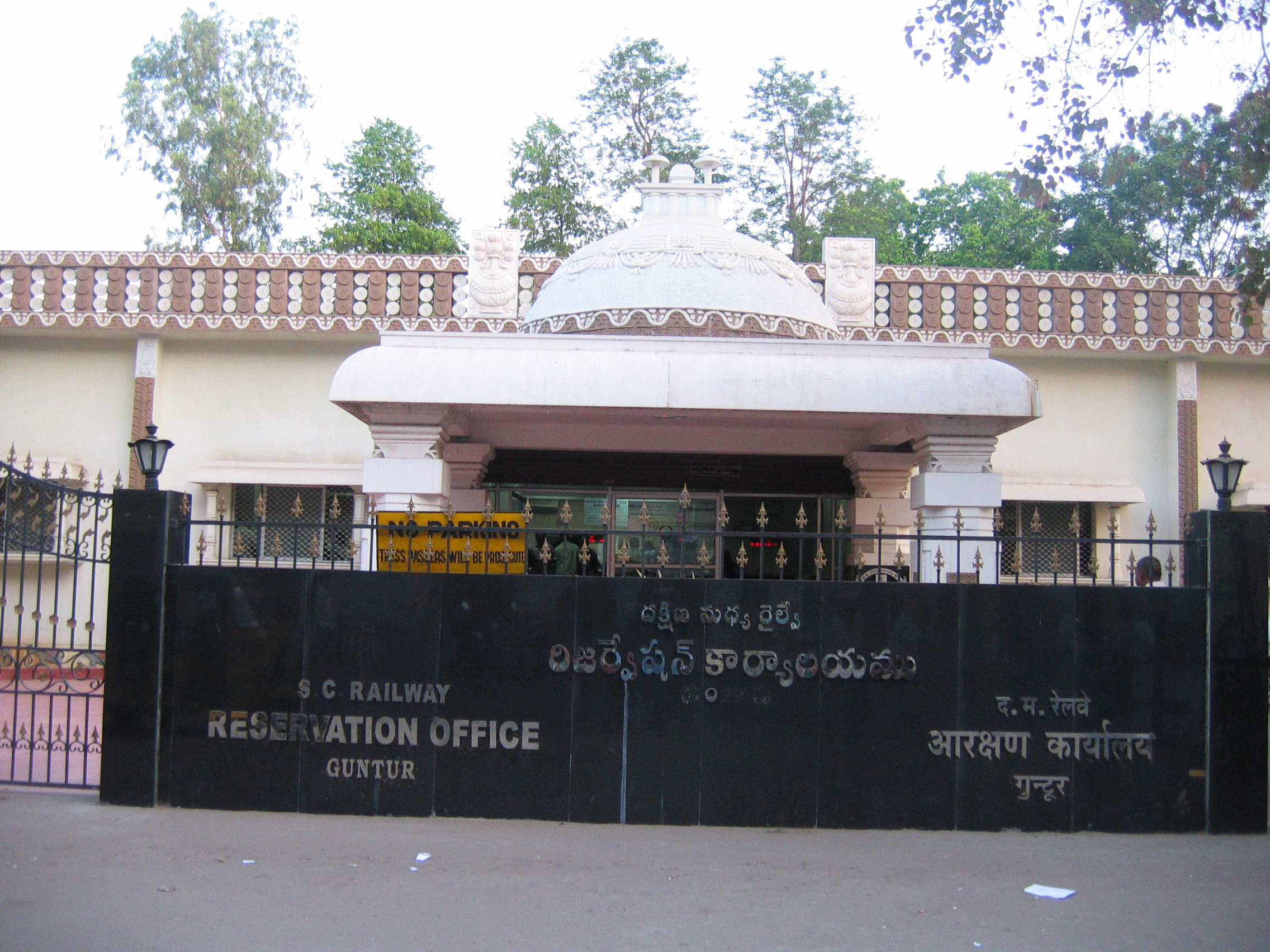 The railway reservation office at the West Terminal of Guntur Division (India).